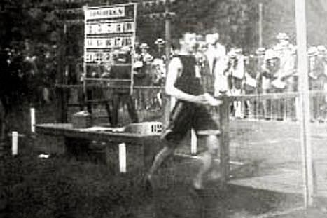 Michel Théato, winner in the marathon run at the 1900 Olympic Games photography, reproduction, no restrictions on use